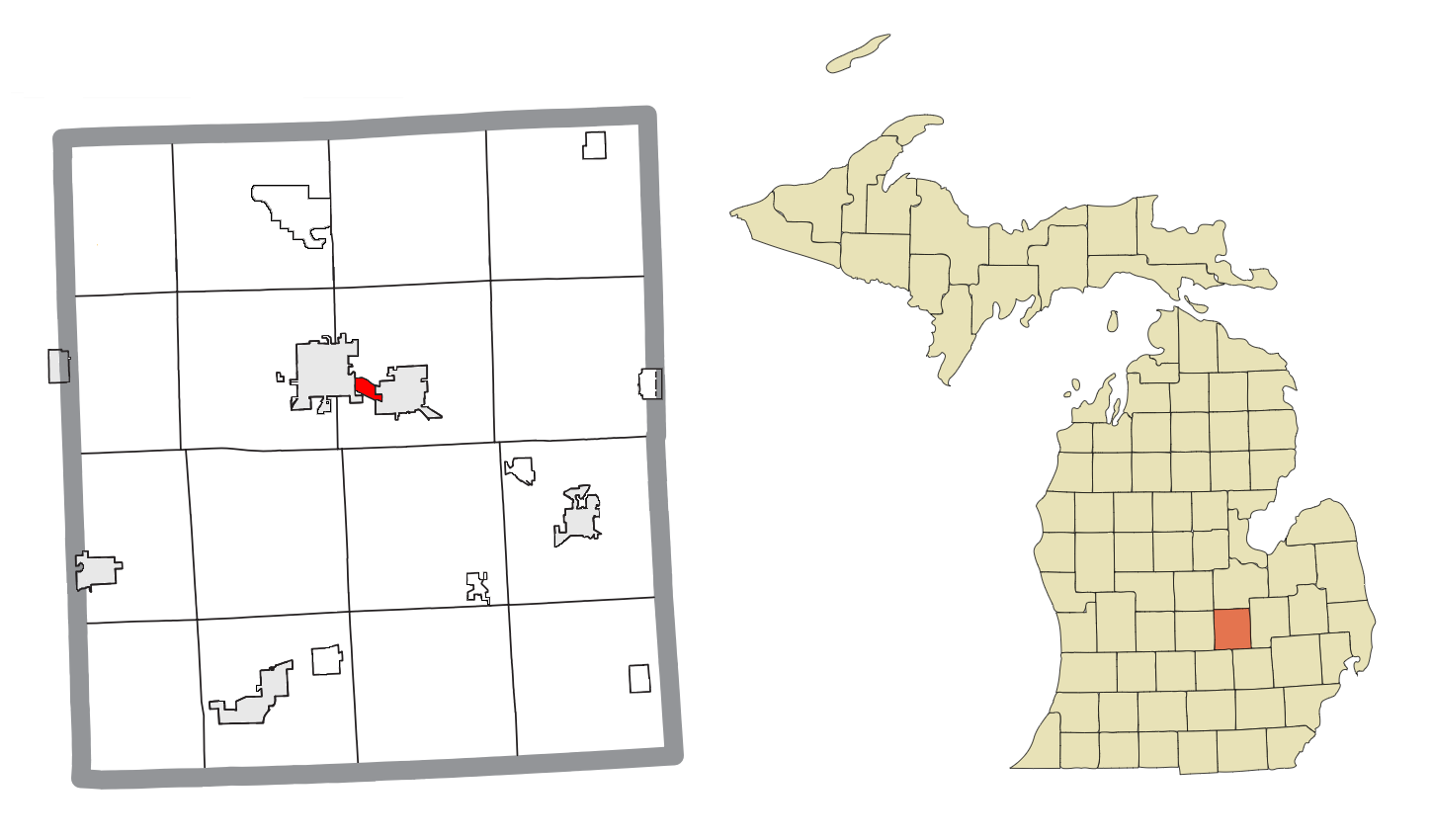 Middletown, MI